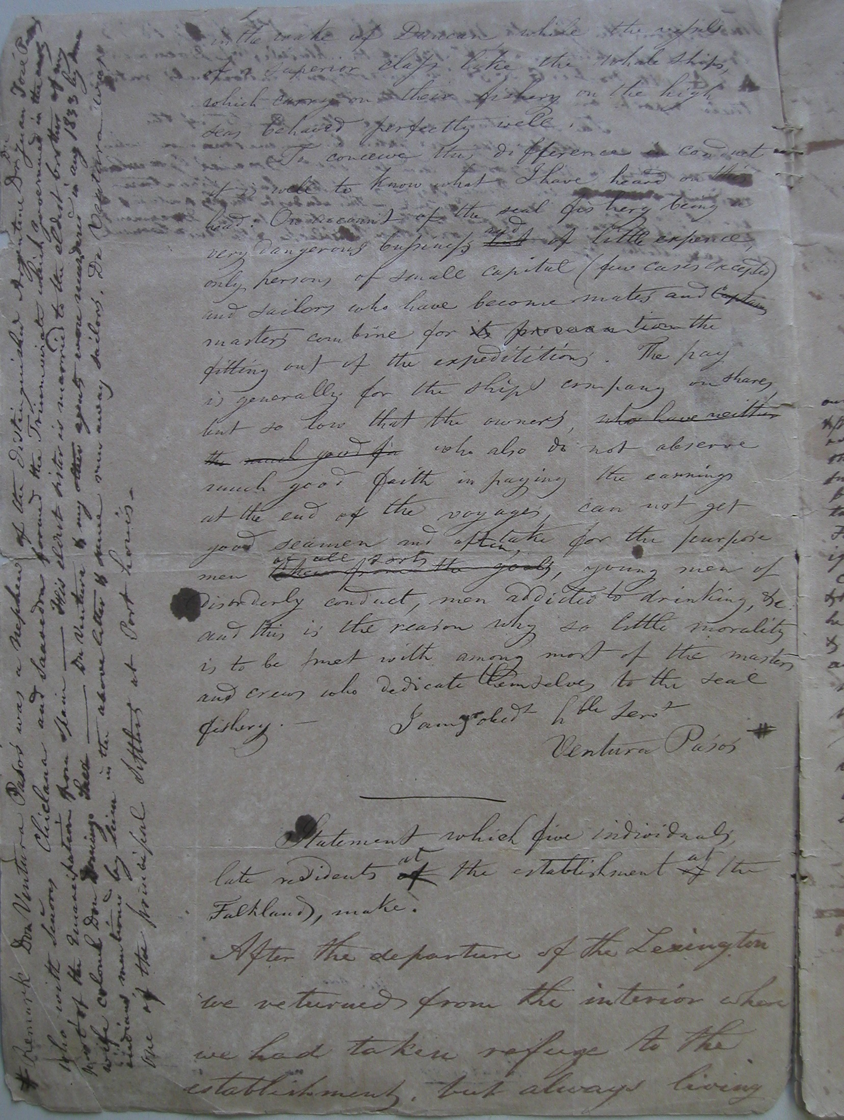 "Don Ventura Pasos was a nephew of the distinguished Argentine Don Juan Jose Pasos who, with senores Chiclana and Saavedra, formed the Triumvirate which governed in the early part of the emancipation from Spain His eldest sister is married to the eldest brother of my wife Colonel Don Domingo Saez – Don Ventura and my other agents were murdered in Aug 1833 by some Indians mentioned by him in the above letter and some runaway sailors. Don Ventura was one of the principal settlers at Port Louis".